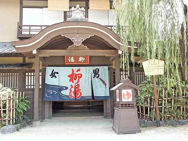 Sento Jidaigeki set Toei Uzumasa Studios Kyoto Japan 2002 I took this photograph and contribute it to the public domain. I took this photograph in 2002.